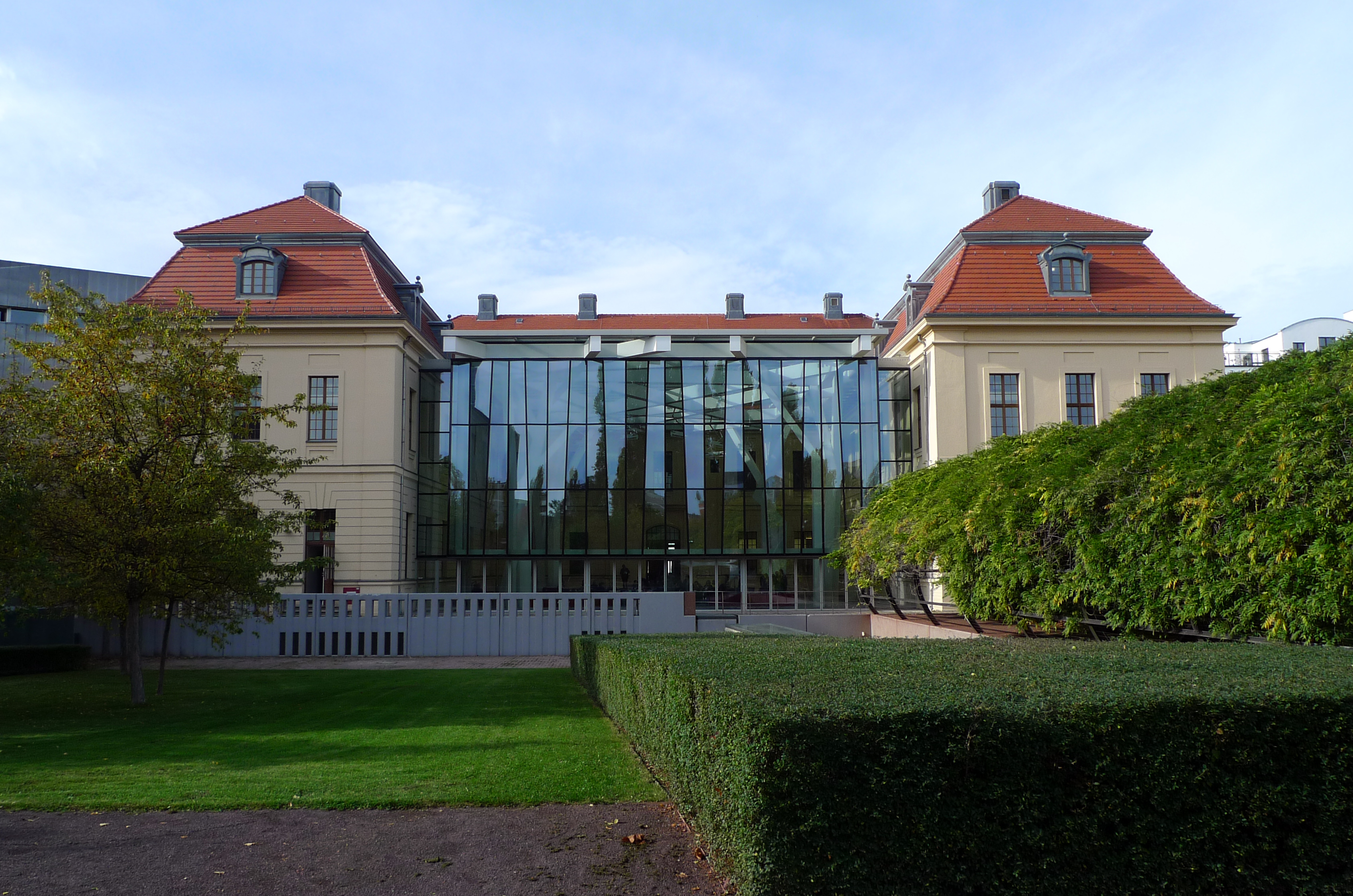 The Gardensite of the Jewish Museum in Berlin, the former prussian Kammergericht